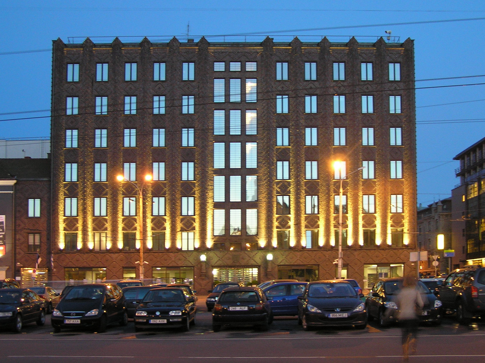 Tallinn City Hall